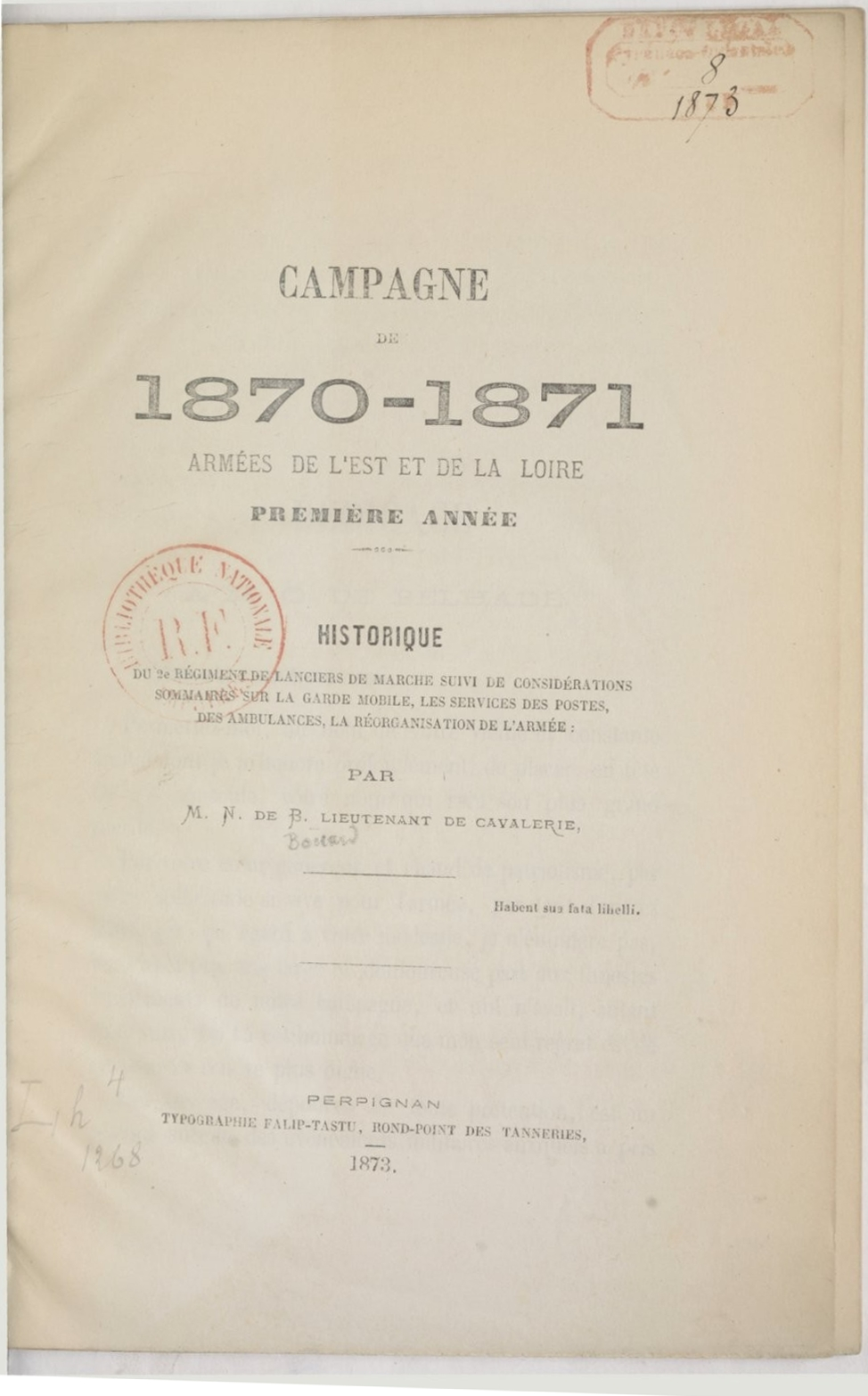 Book cover of Campagne de 1870-1871 (Perpignan: Imp. Falip-Tastu, 1873)